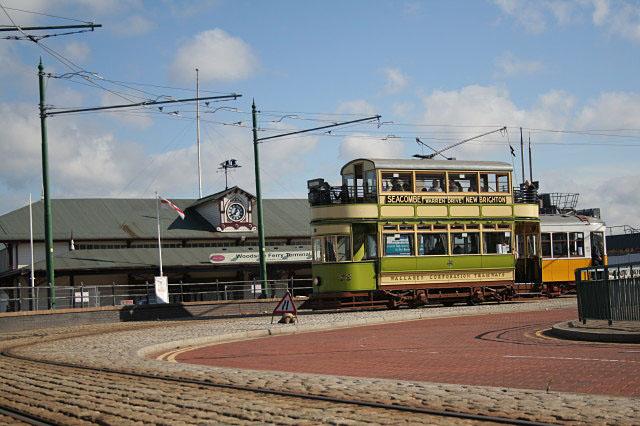 Wallasey tram at Woodside Preserved Wallasey tram 78 at the Woodside terminal of the Birkenhead Tramway